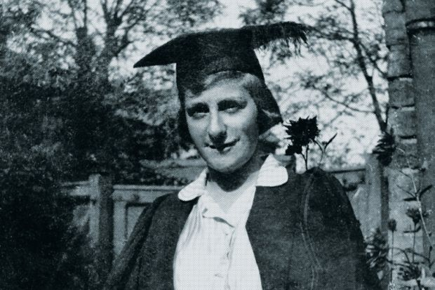 Photograph of Edith Morley in her College gowns.